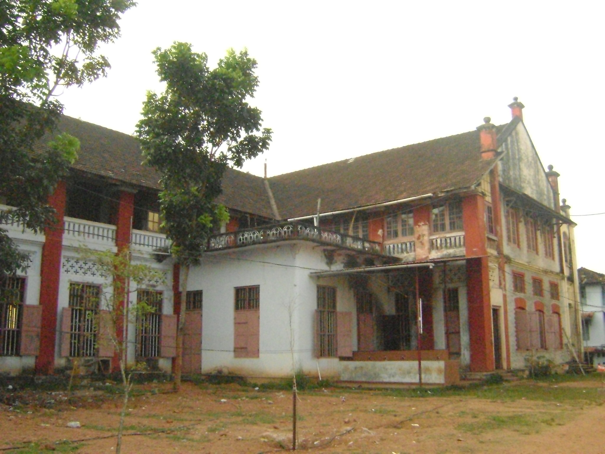 main building